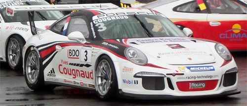 Alexandre Cougnaud's car at Le Mans 2014